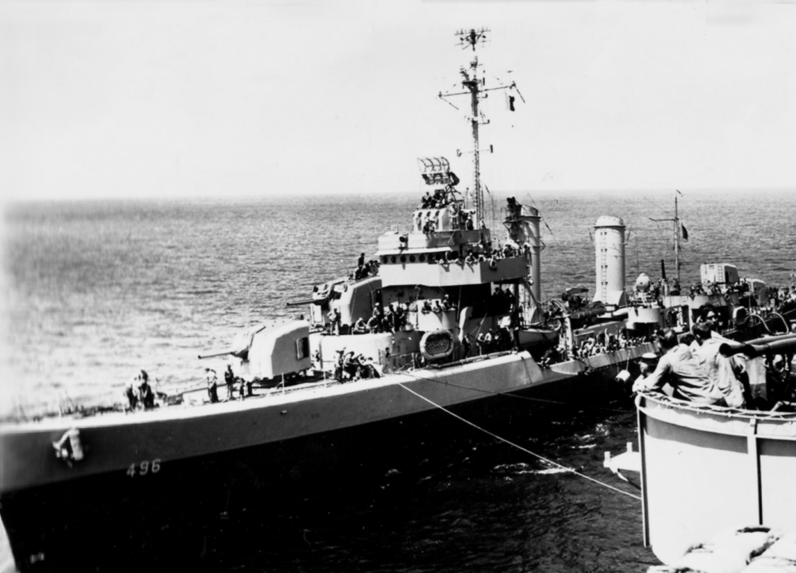 The U.S. Navy Gleaves-class destroyer USS McCook (DD-496) alongside an unidentified aircraft carrier in the Atlantic Ocean.